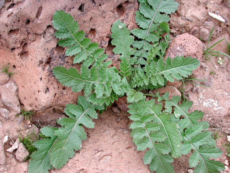 Brassica tournefortii Sahara Mustard or Asian Mustard. Hedgepeth Hills, Maricopa County, Arizona, USA. This is an invasive weed across much of the southwestern United States native to North Africa and parts of Asia.